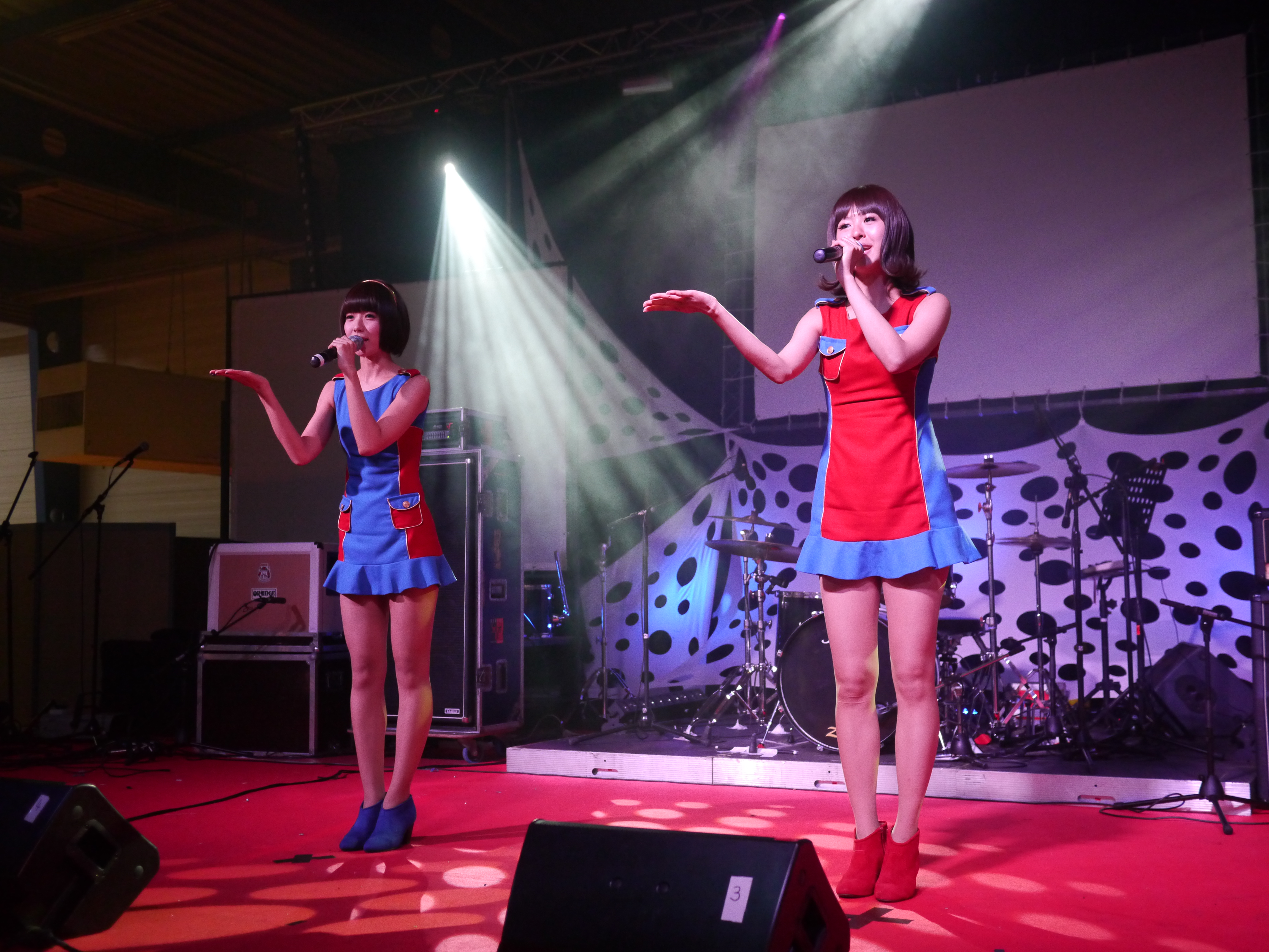 Toulouse Game Show Festival, 6th edition.